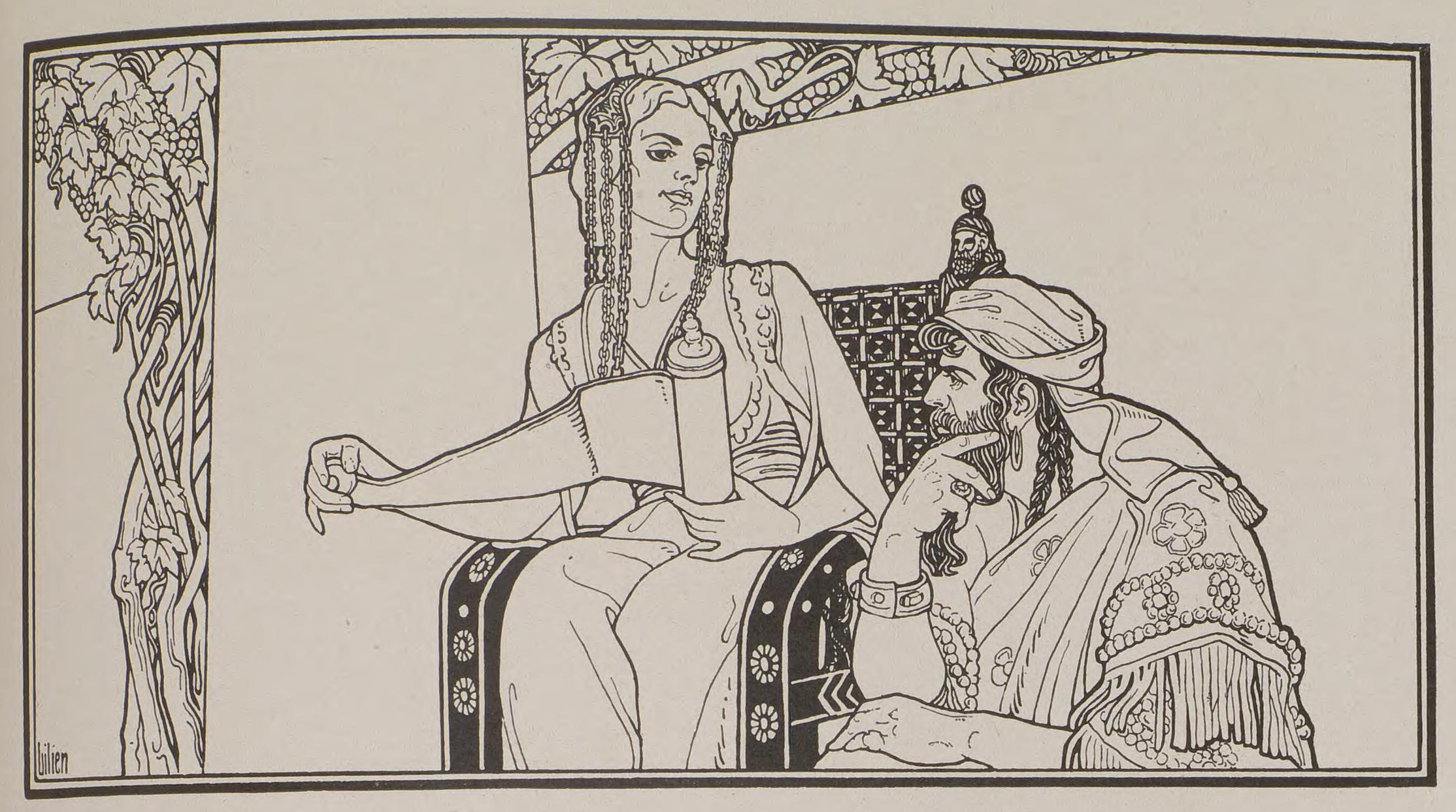 Lemuel and his mother (Proverbs 31).Speak to the king of the burden that his mother has removed.– The Book of Proverbs, Chapter 31, Verse 1"Lemuel and his mother" – a painting by Ephraim Moshe Lilien